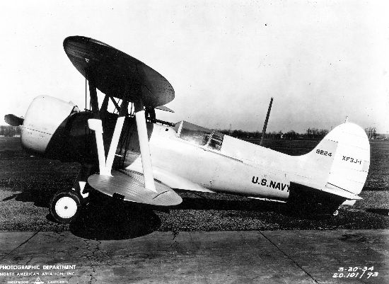 Berliner-Joyce XF3J-1 fighter, March 30 1934.